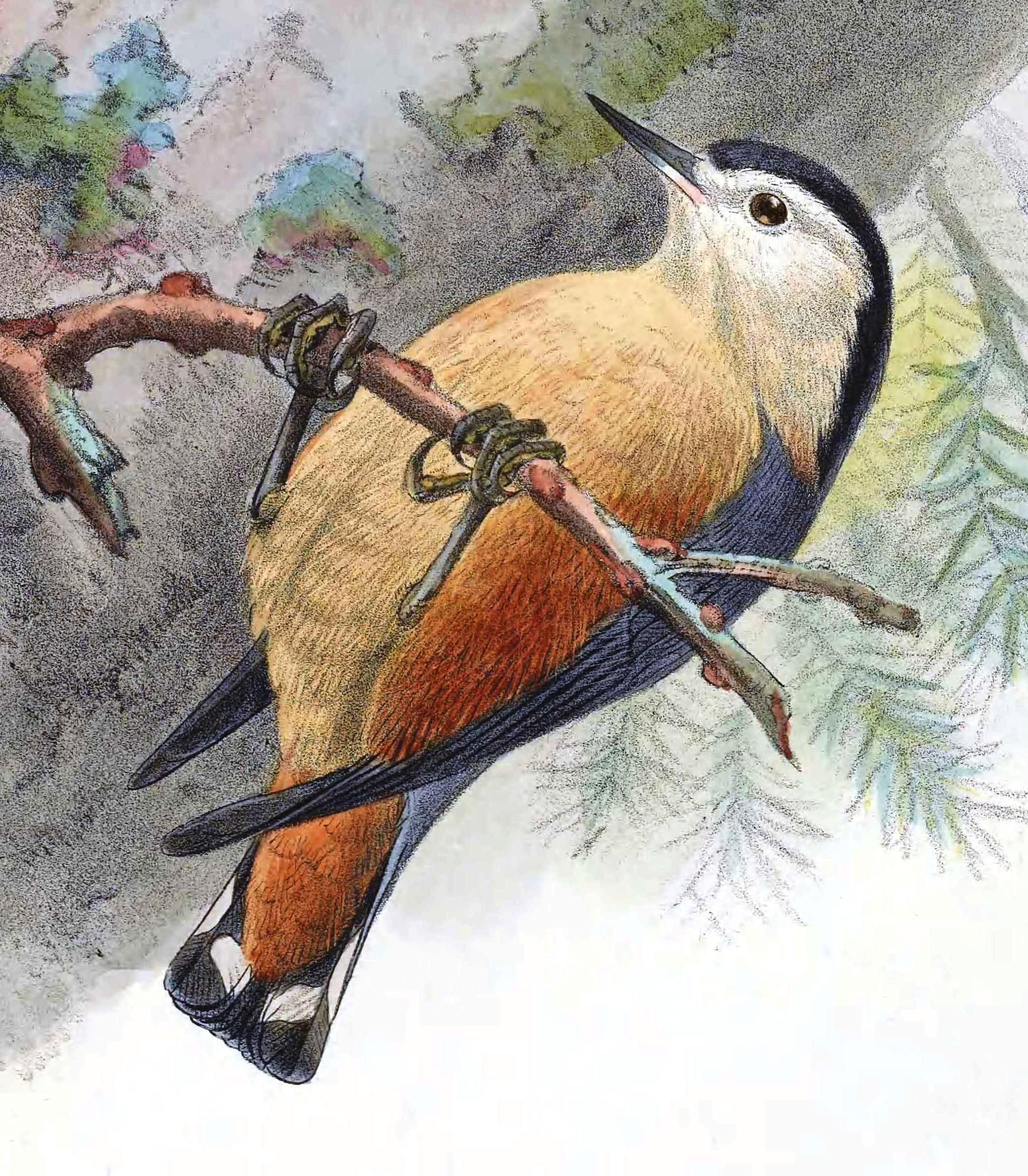 « Sitta przewalskii » = Sitta przewalskii (Przevalski's nuthatch) - female in worn plumage